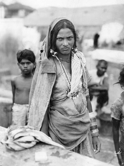 Dalit or Untouchable Woman of Bombay (Mumbai) according to Indian Caste System - 1942